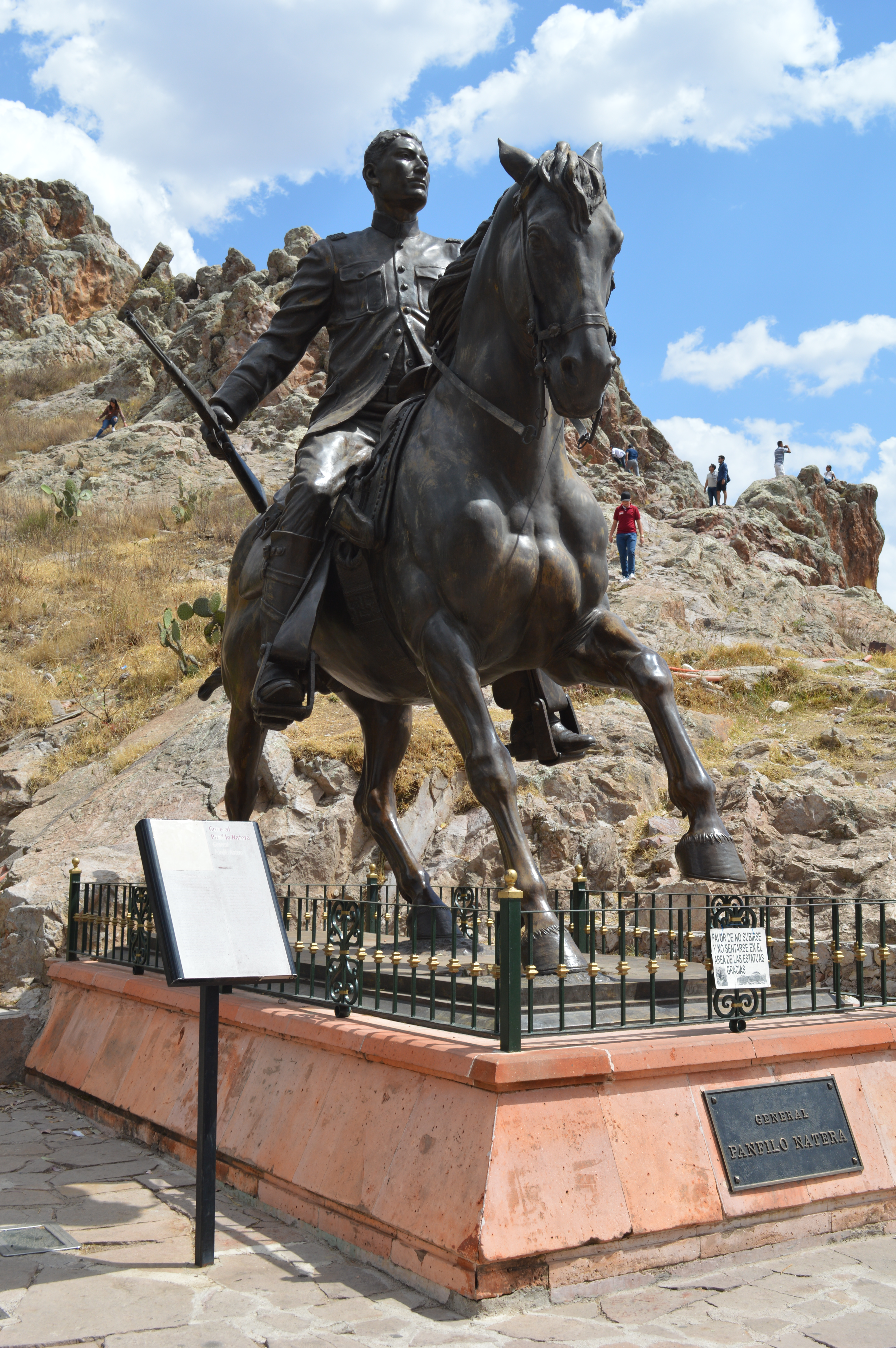 Statue of Panfilo Natera at Cerro de la Bufa, Zacatecas